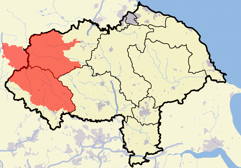 Map showing Yorkshire Dales National Park within North Yorkshire and Cumbria.